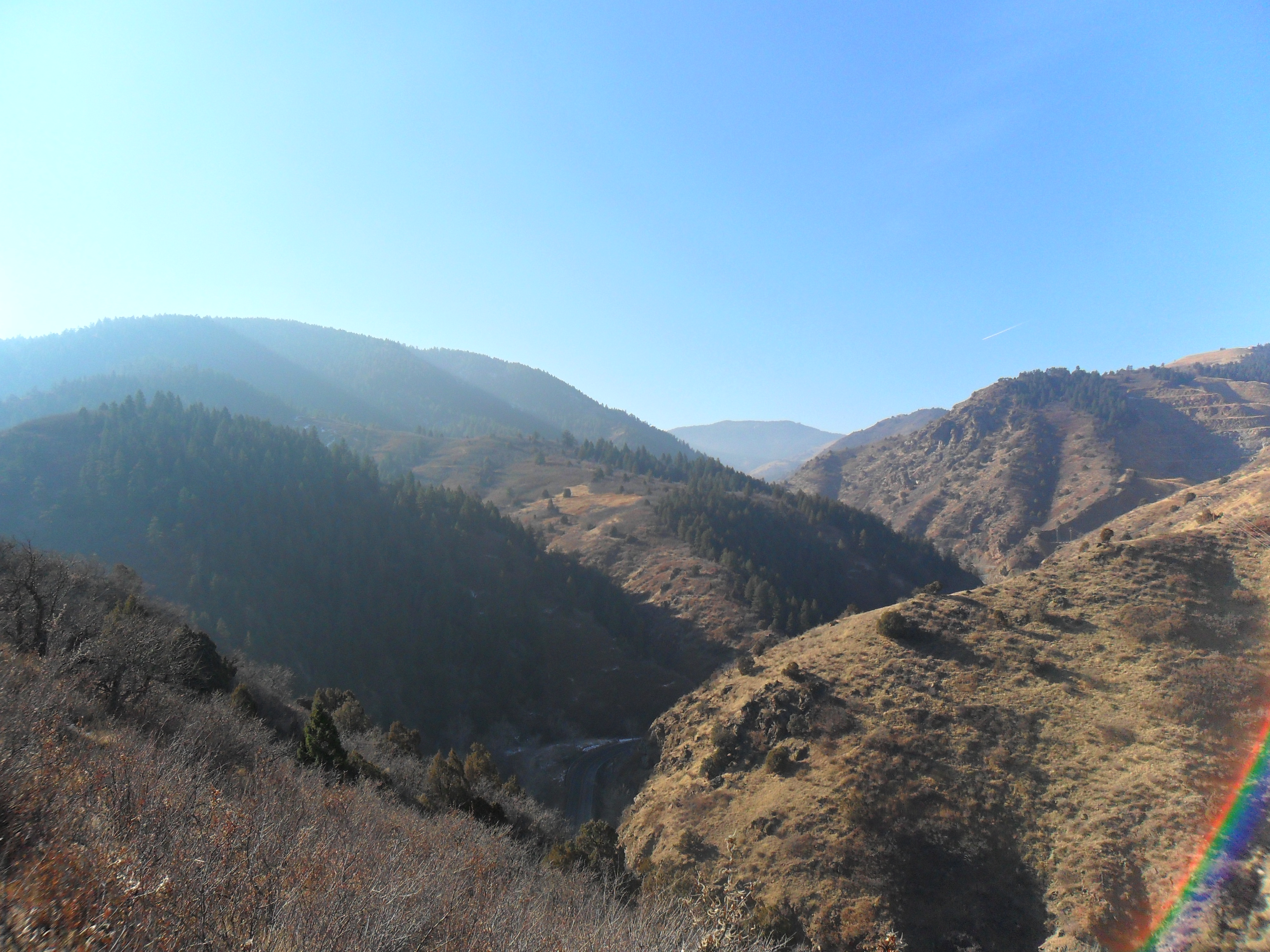 Rocky Mountain Foothills west of Denver, CO